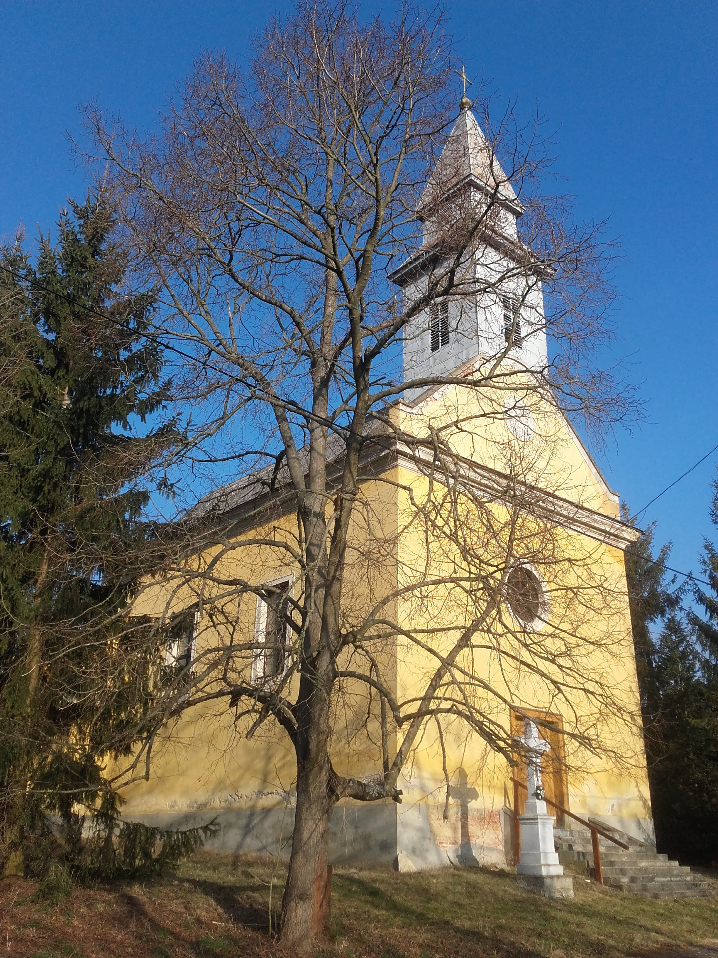 Roman Catholic Church of Nyésta, Hungary